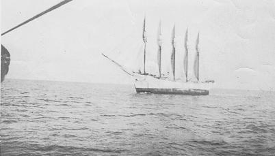 Carroll A. Deering as seen from the Cape Lookout lightship on January 28, 1921. (US Coast Guard) This image is a work of a United States Coast Guard employee, taken or made during the course of an employee's official duties. As a work of the U.S. federal government, the image is in the public domain. Subject to disclaimers.